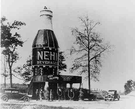 A 1924 photograph of "The Bottle", a 64 foot (19.5 m) tall Nehi bottle north of Auburn, Alabama.